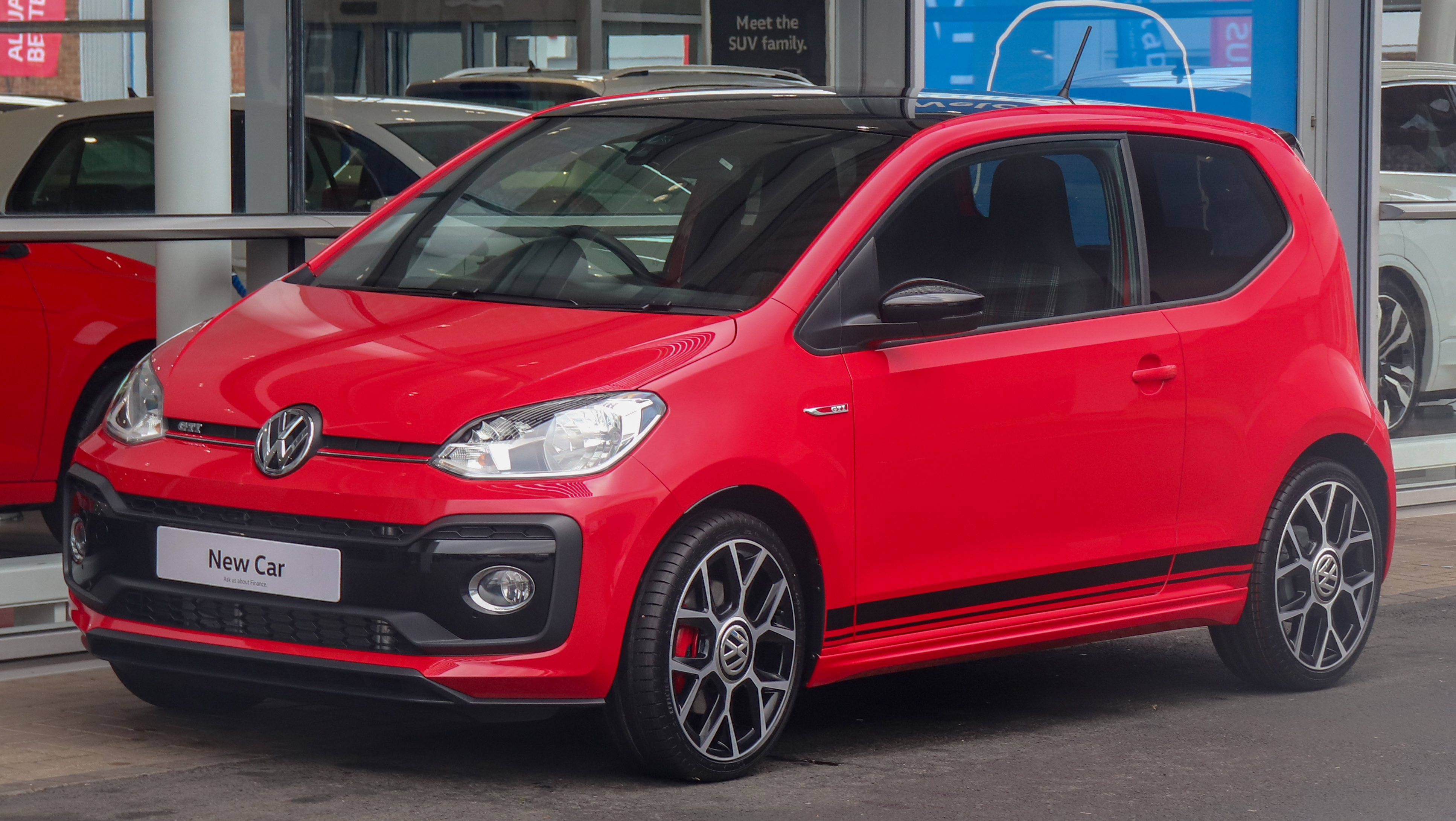 2019 Volkswagen up! GTi 1.0 Front Taken in Stratford-upon-Avon